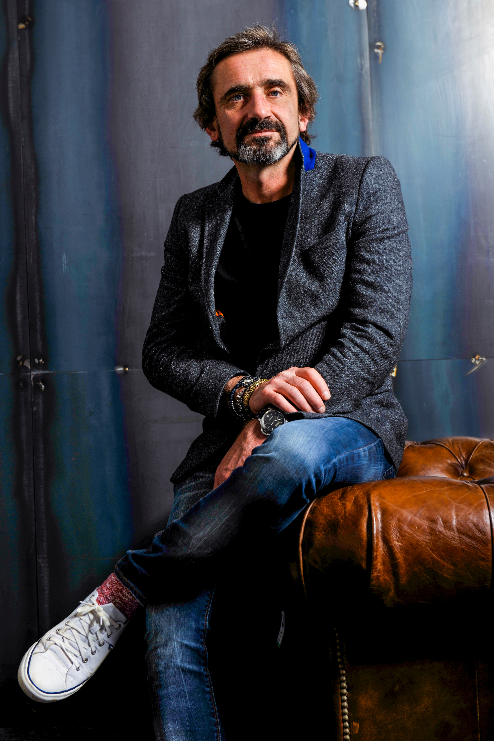 Julian Dunkerton, Entrepreneur and Founder of Superdry